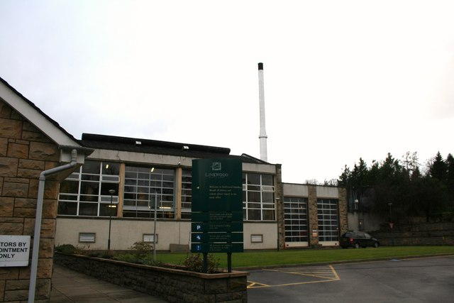 Linkwood distillery The "new" distillery complex at Linkwood having been built alongside the old in the sixties and opening in 1971. The new stills were manufactured as exact copies of those they replaced.